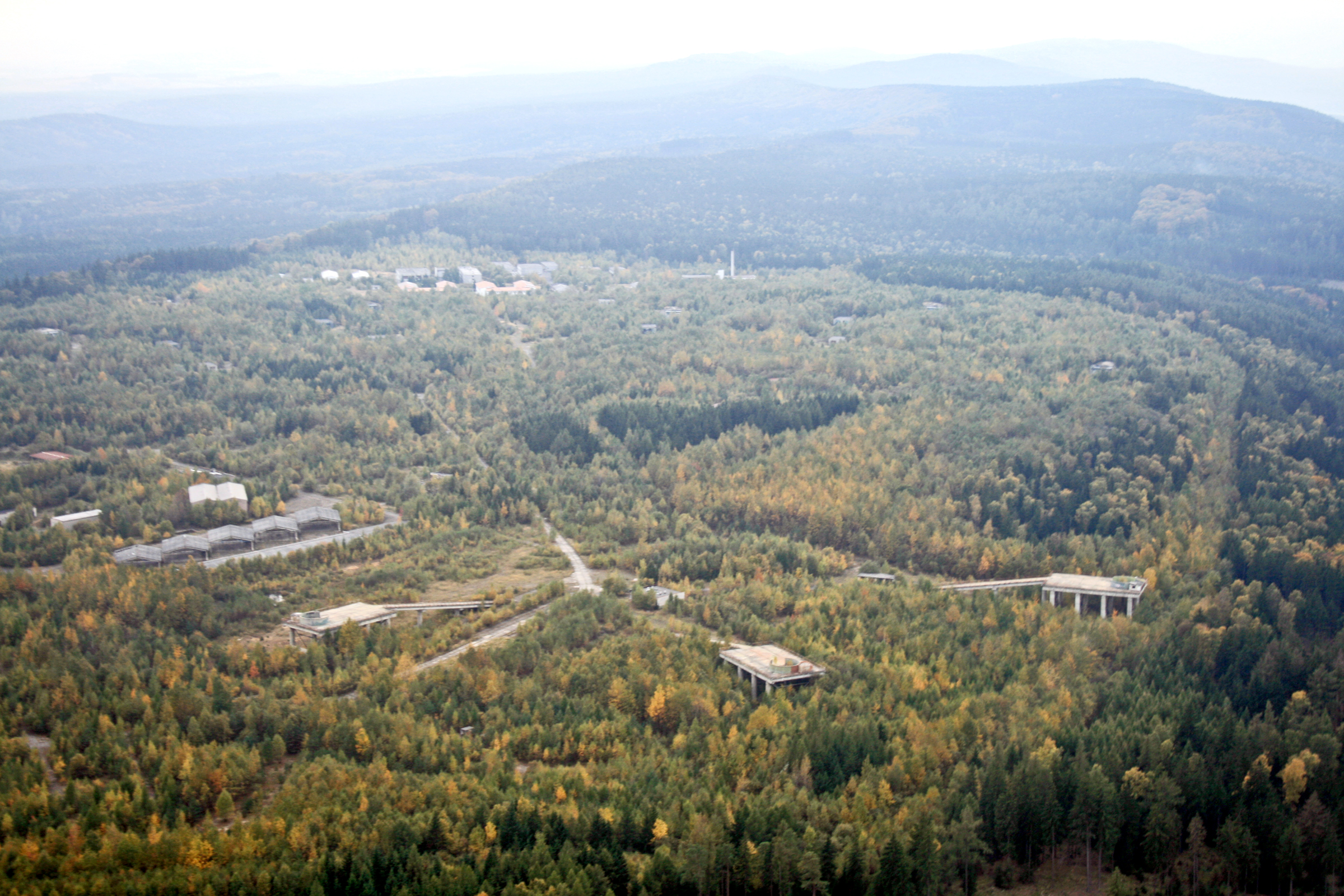 Abandon Soviet military rocket base in Brdy mountains in central Bohemia, Czech Republic